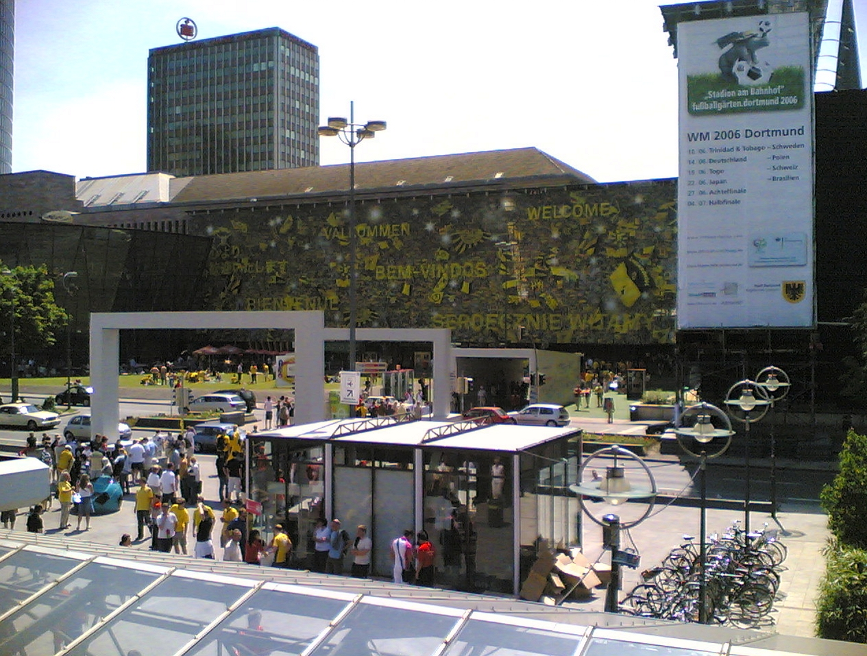 Football World Cup 2006: Germany, Dortmund, opposite Central Station: Football supporters from all around the world are welcomed in the supporters meeting point "Stadion am Bahnhof" ("stadium at the railway station").